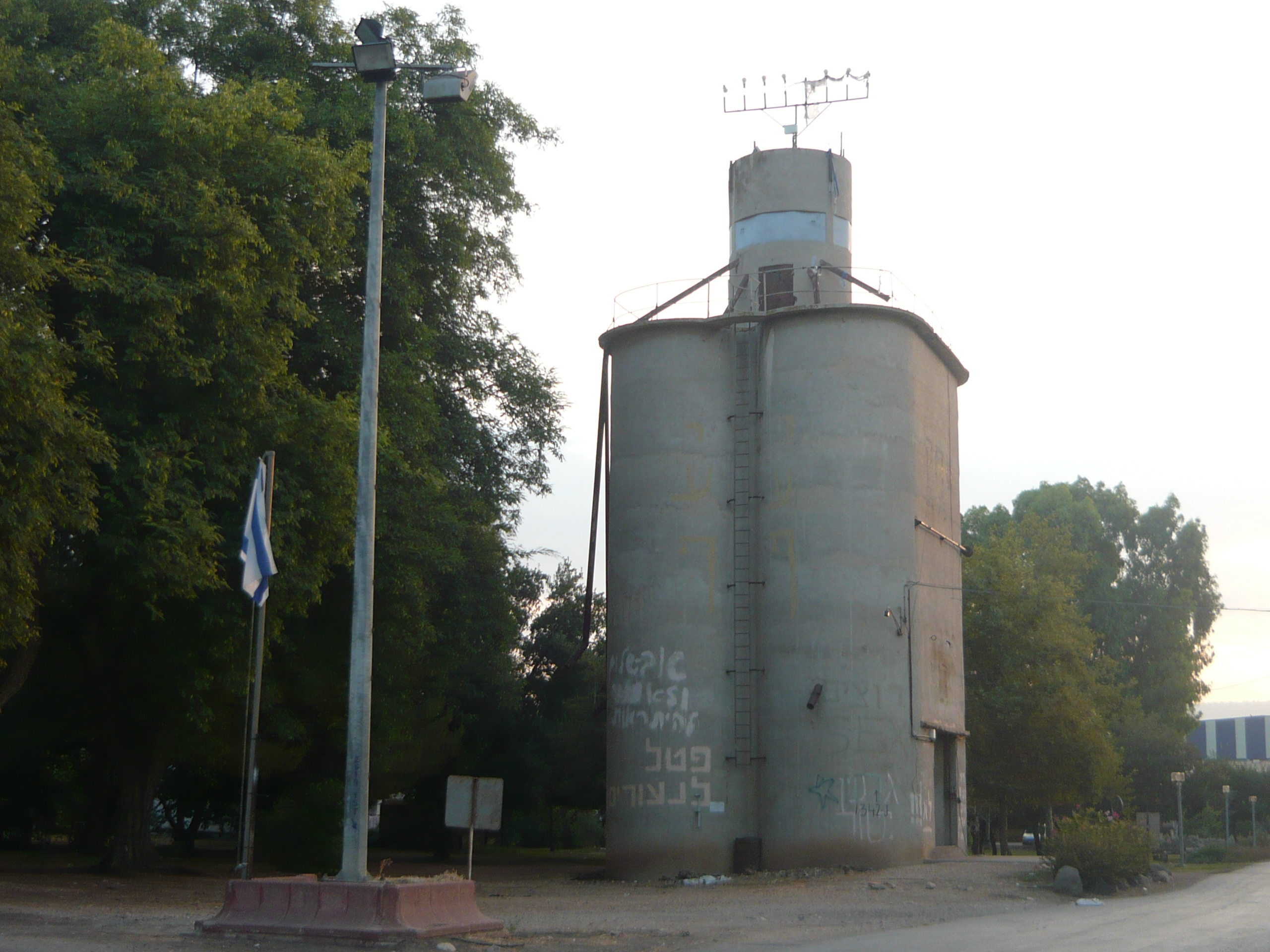 silo in Hulata, Israel סילו עתיק בחולתה